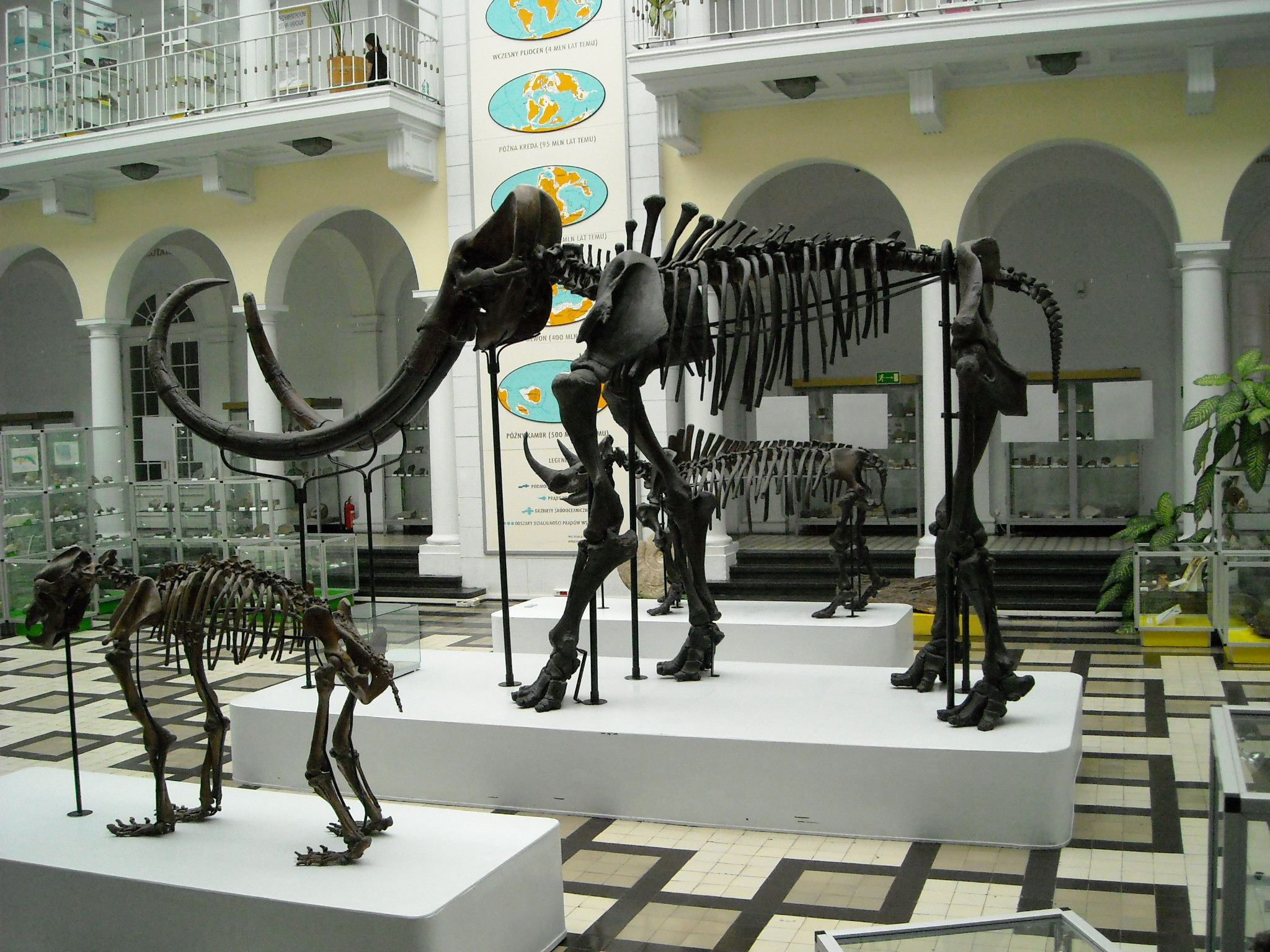 Woolly mammoth (Mammuthus primigenius) skeleton in the middle, cave bear (Ursus spelaeus) in the left and woolly rhinoceros (Coelodonta antiquitatis) in the background.